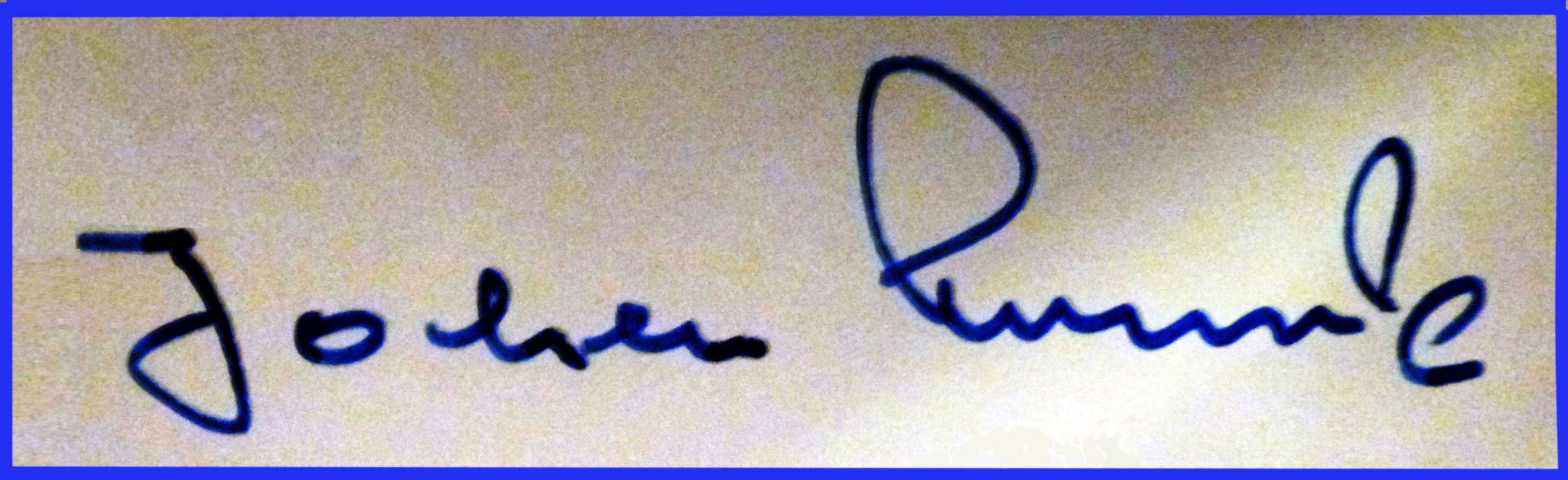 Signature Jochen Brennecke